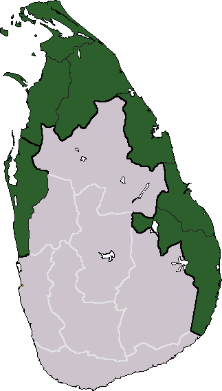 Tamils claims of the recognized de facto state of Tamil Eelam on the island of Sri Lanka. (Their actual area of control does not currently extend over the whole territory they claim.) My own creation, based on public domain sources.